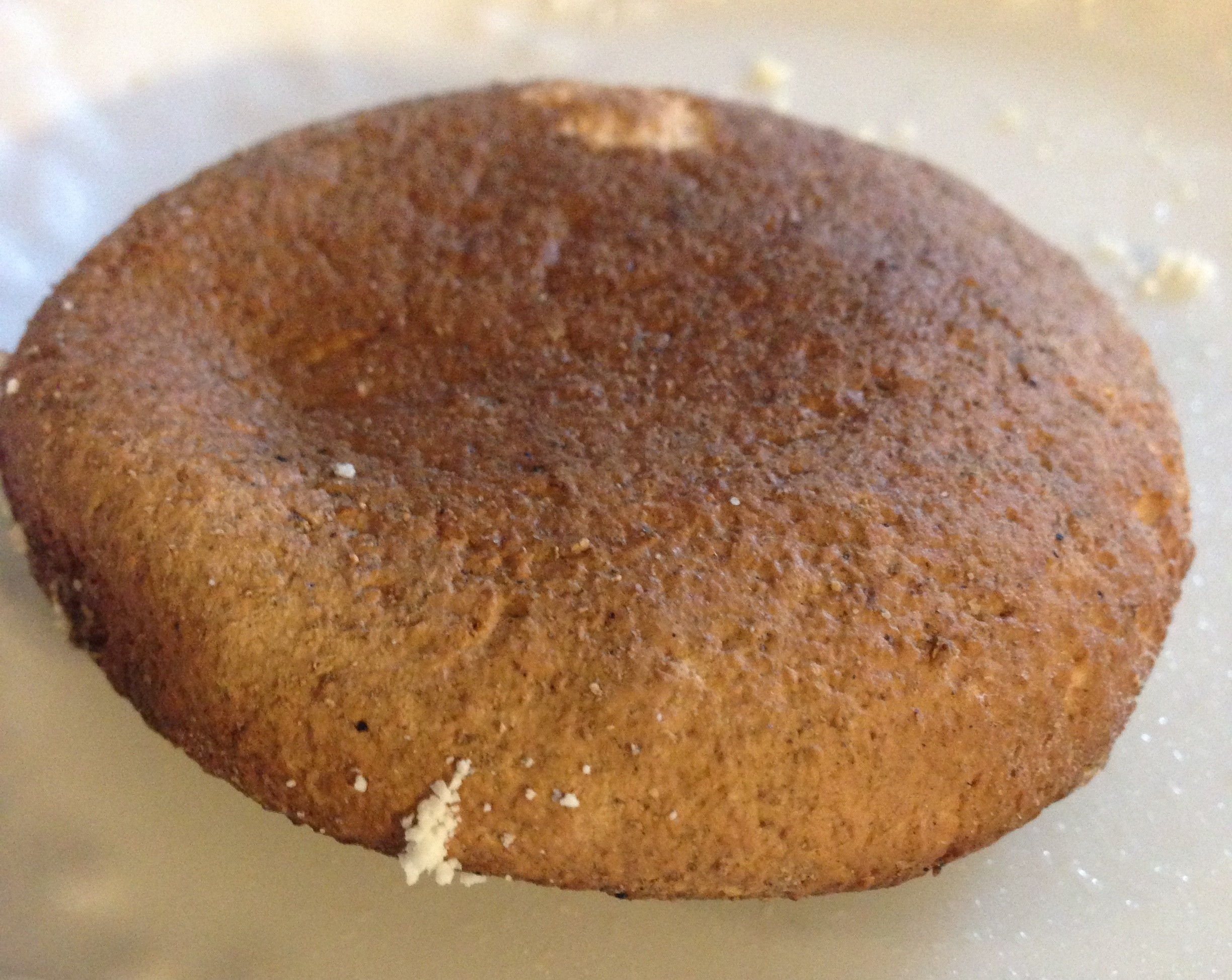 Bosnian Smoked Cheese (Suhi Sir). All ingredients, processing, and smoking accomplished in Bosnia (Tuzlanski Kanton) in 2015.